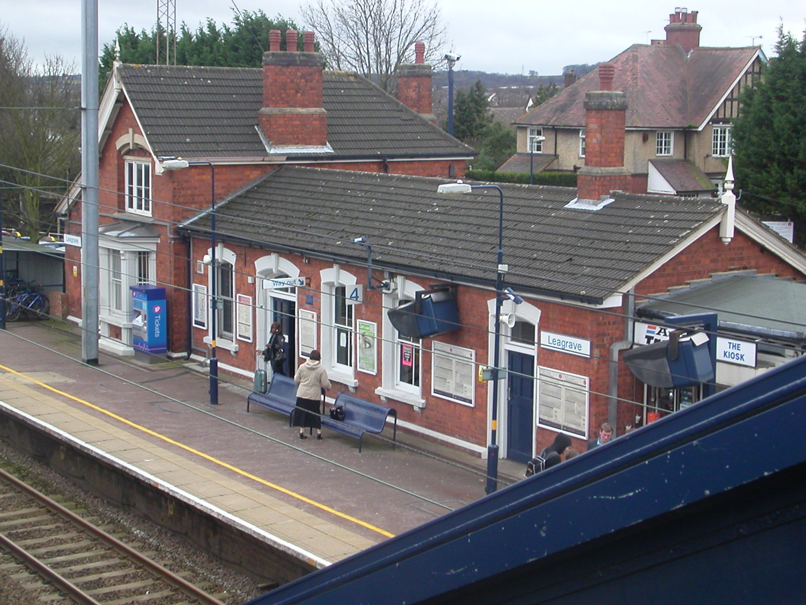 Main station building on Platform 4 at Leagrave. Photographed on 13th January 2007.